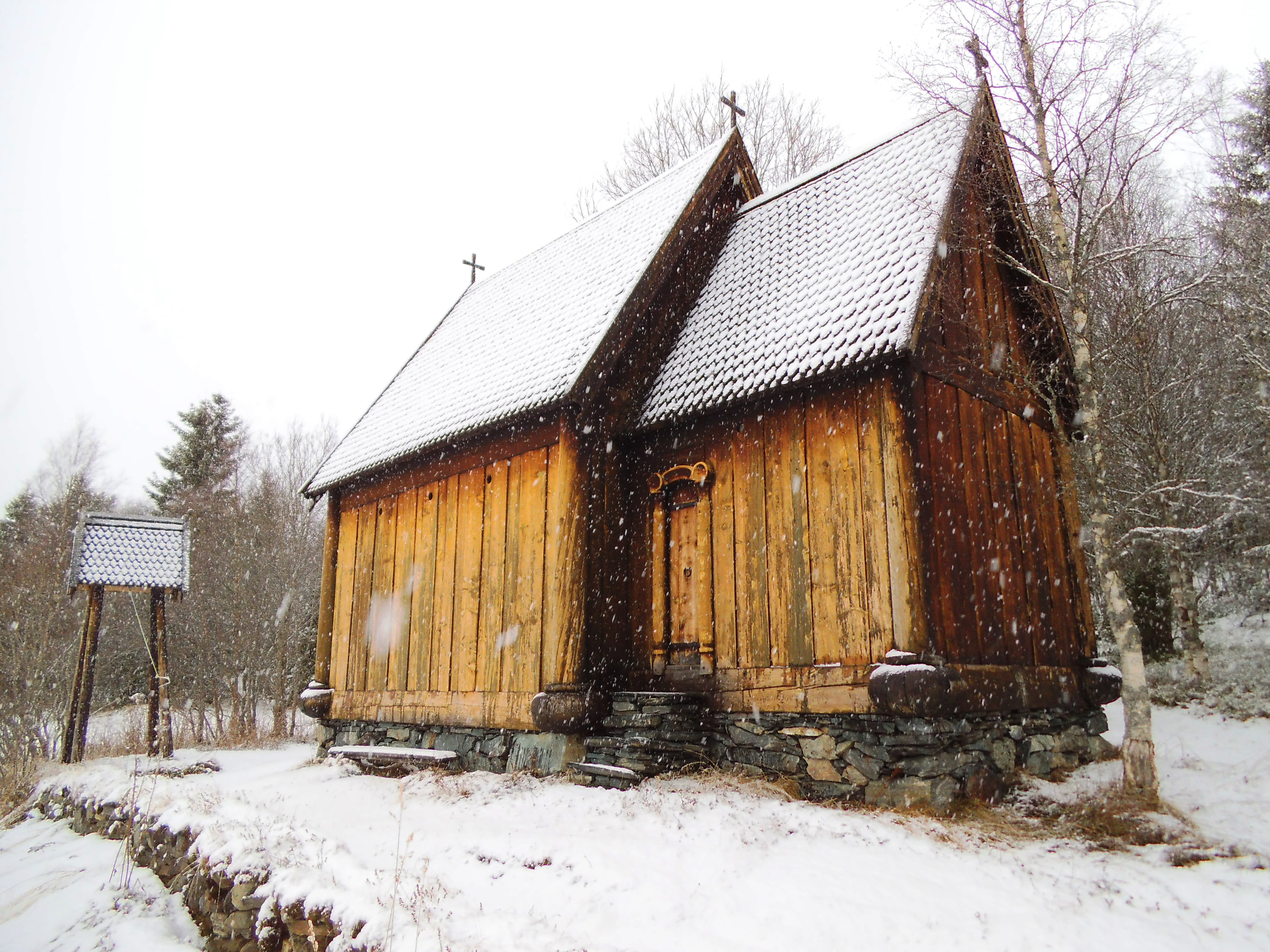 Kolbrandstad stavkirke. A stave church in Korsvegen, Norway.